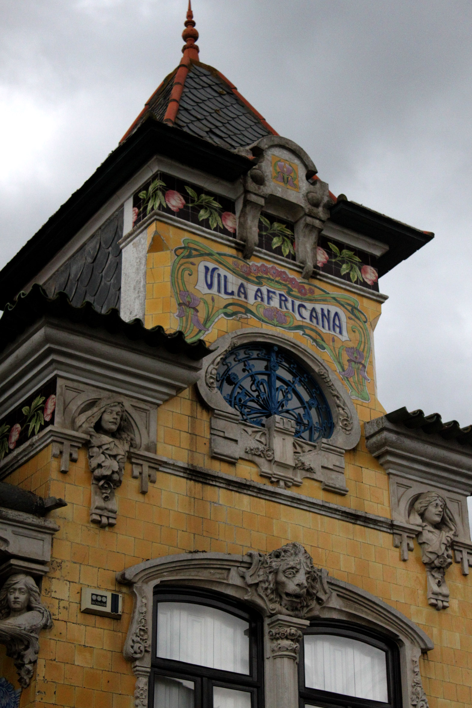 This file was uploaded for Wiki Loves Monuments in Portugal with the unique identifier 3921293.